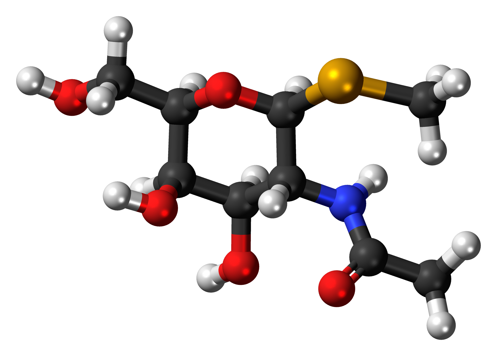 Ball-and-stick model of the 1β-Methylseleno-N-acetyl-D-galactosamine molecule, an amino sugar containing selenium. Black: Carbon, C White: Hydrogen, H Red: Oxygen, O Blue: Nitrogen, N Yellow-brown: Selenium, Se